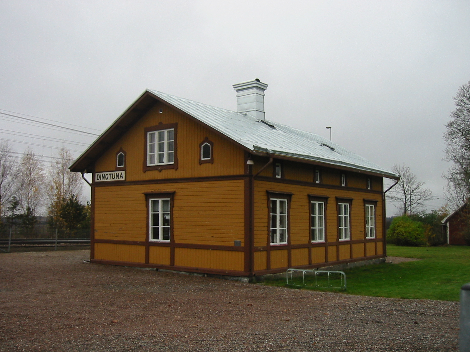 The former railway station in Dingtuna, cirka 10 km west of Västerås, Sweden